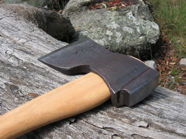 A photo of a carpenter's axe.